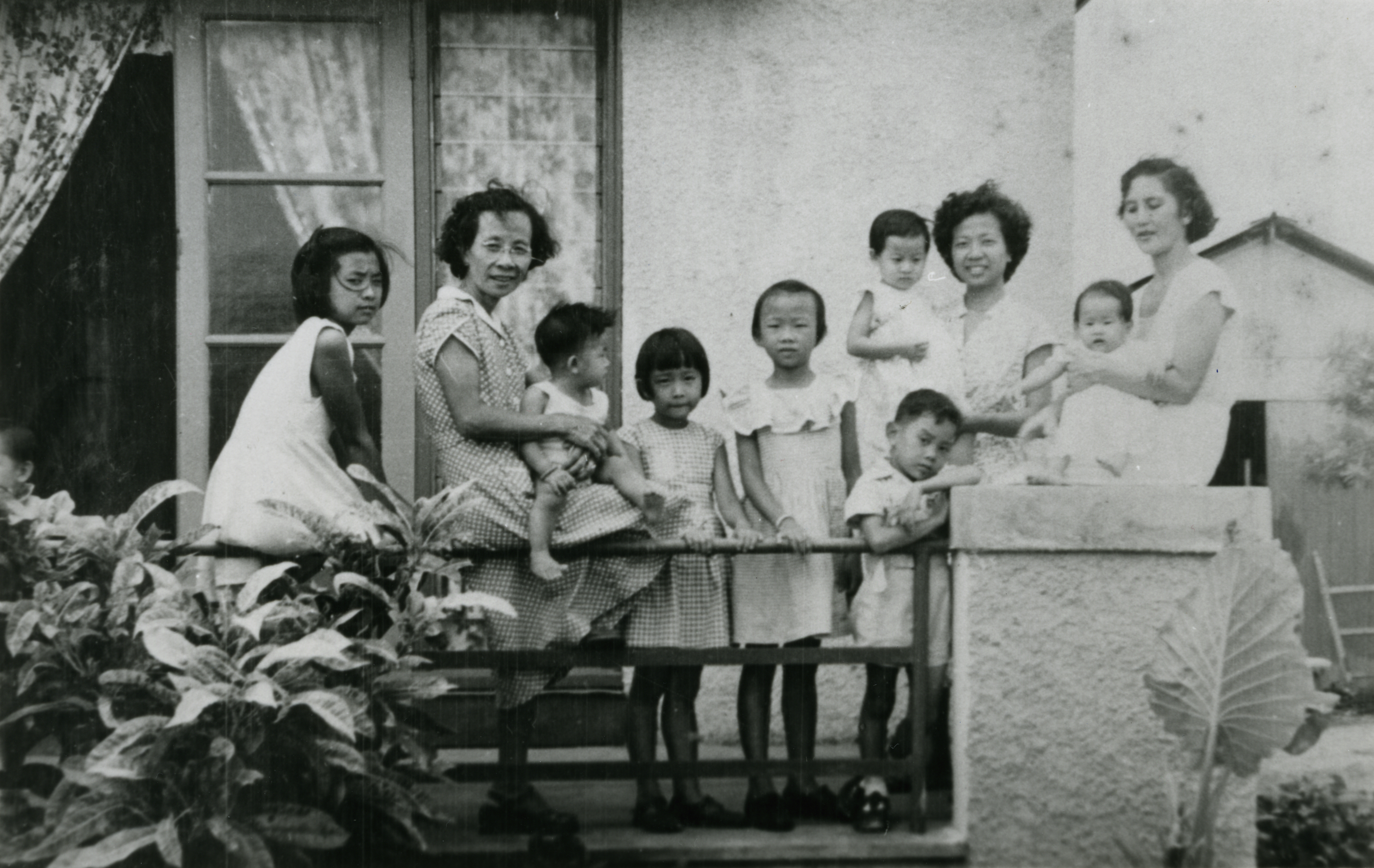 From left to right, Norma Chin, Sue Wah Chin, holding Desmond Fong, Carol Chin, Brian Chin, ?, Darwina Fong holding baby Diane Chin, Sandra Fong, Olive Chin holding baby Diane on the verandah of 114 East Point Road. PH0553/0105